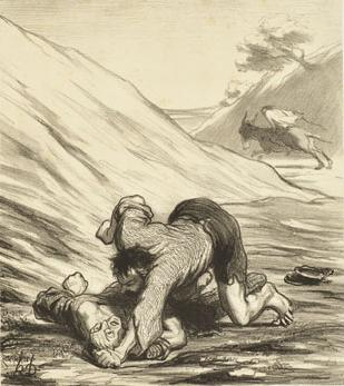 Honoré Victorin Daumier: The Ass and the Two Thieves (L’Âne et les deux voleurs), plate 75 from the series Artists’ Recollections (Souvenirs d’artistes), 1863, lithograph on wove paper